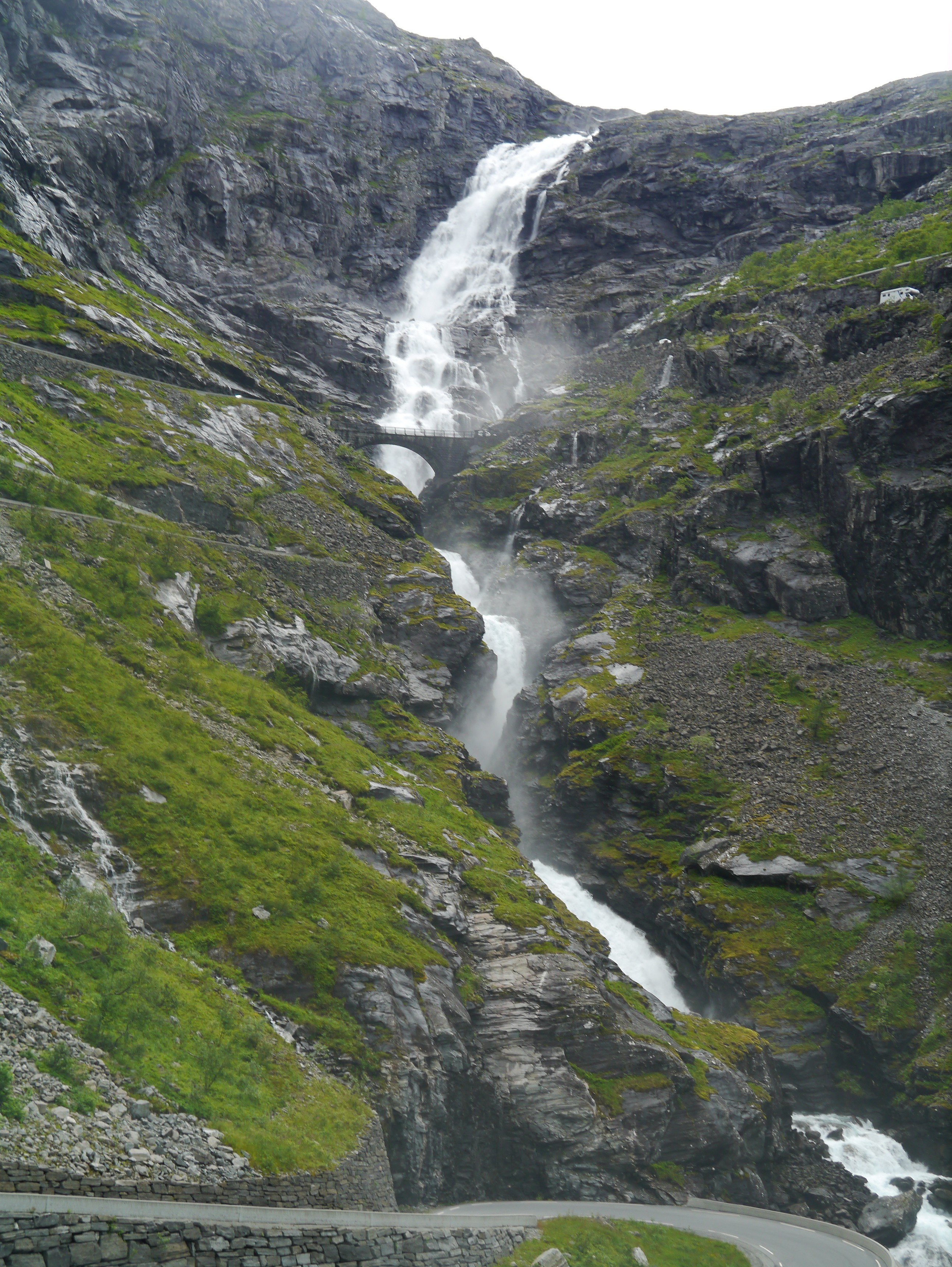 the Stigfoss at Trollstigen, Möre og Romsdal County, Central Norway